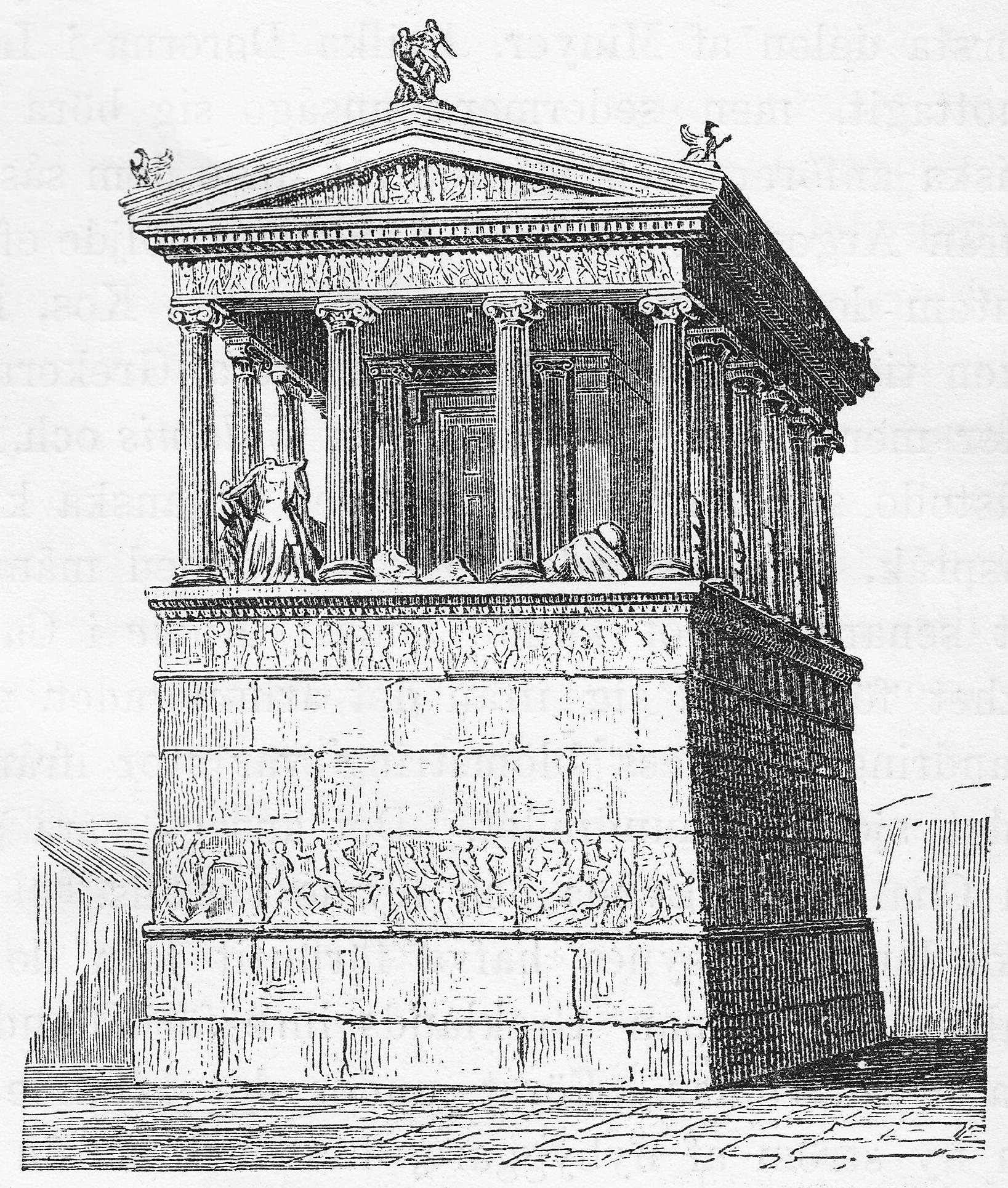 Illustration from "Illustrerad verldshistoria utgifven av E. Wallis. volume I": Greece gravemonument i Xanthos, Lycia.